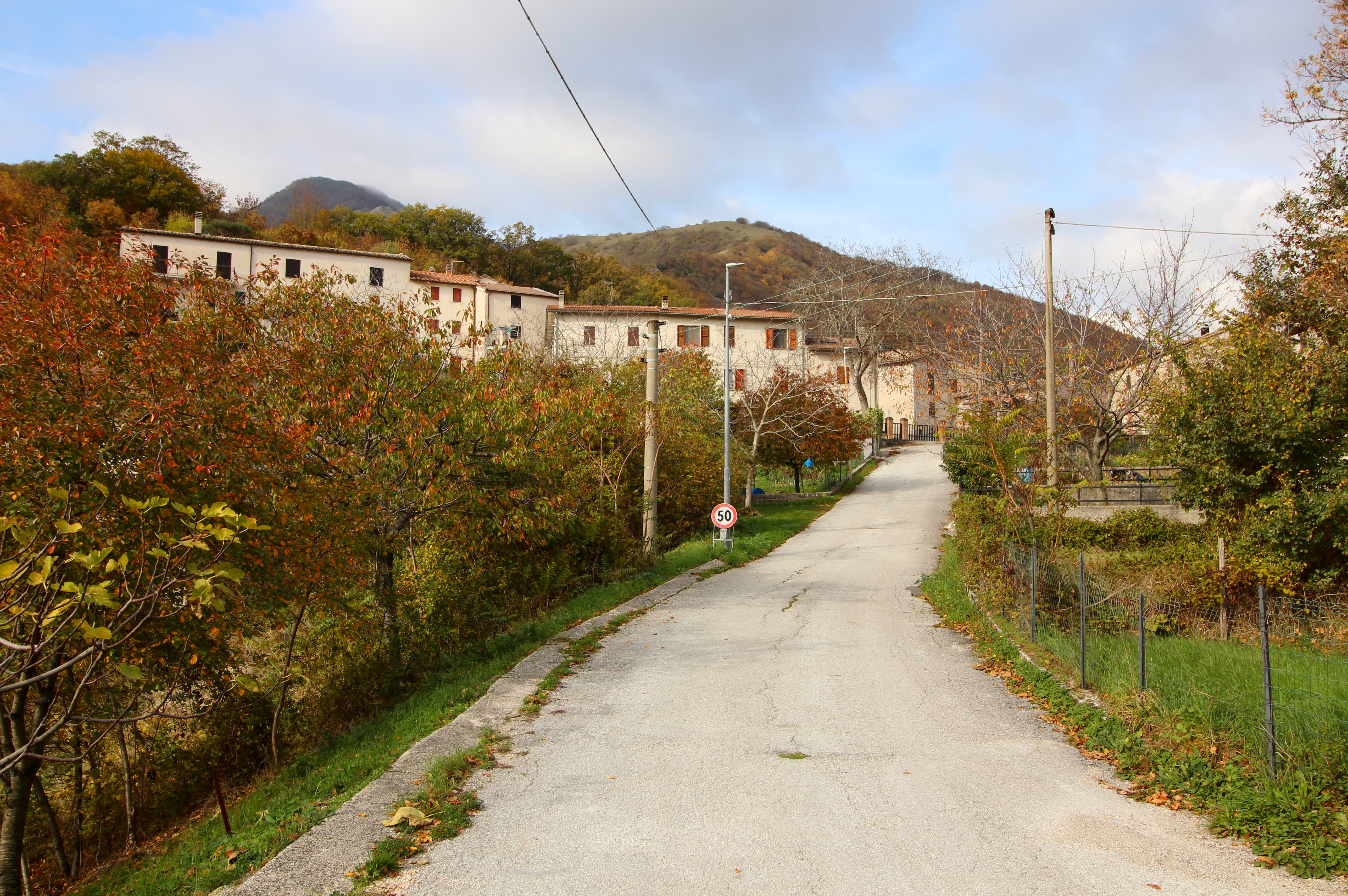 Coldipeccio, hamlet of Scheggia e Pascelupo, Province of Perugia, Umbria, Italy